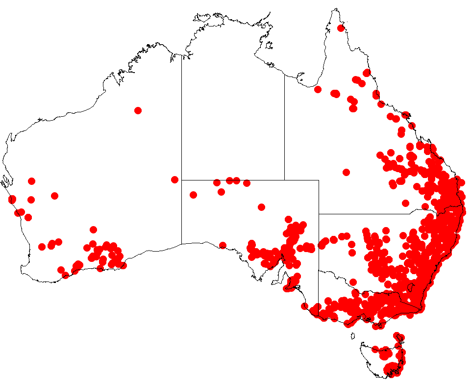 Indigofera australis downloaded 18 November 2018 from Australasian Virtual Herbarium